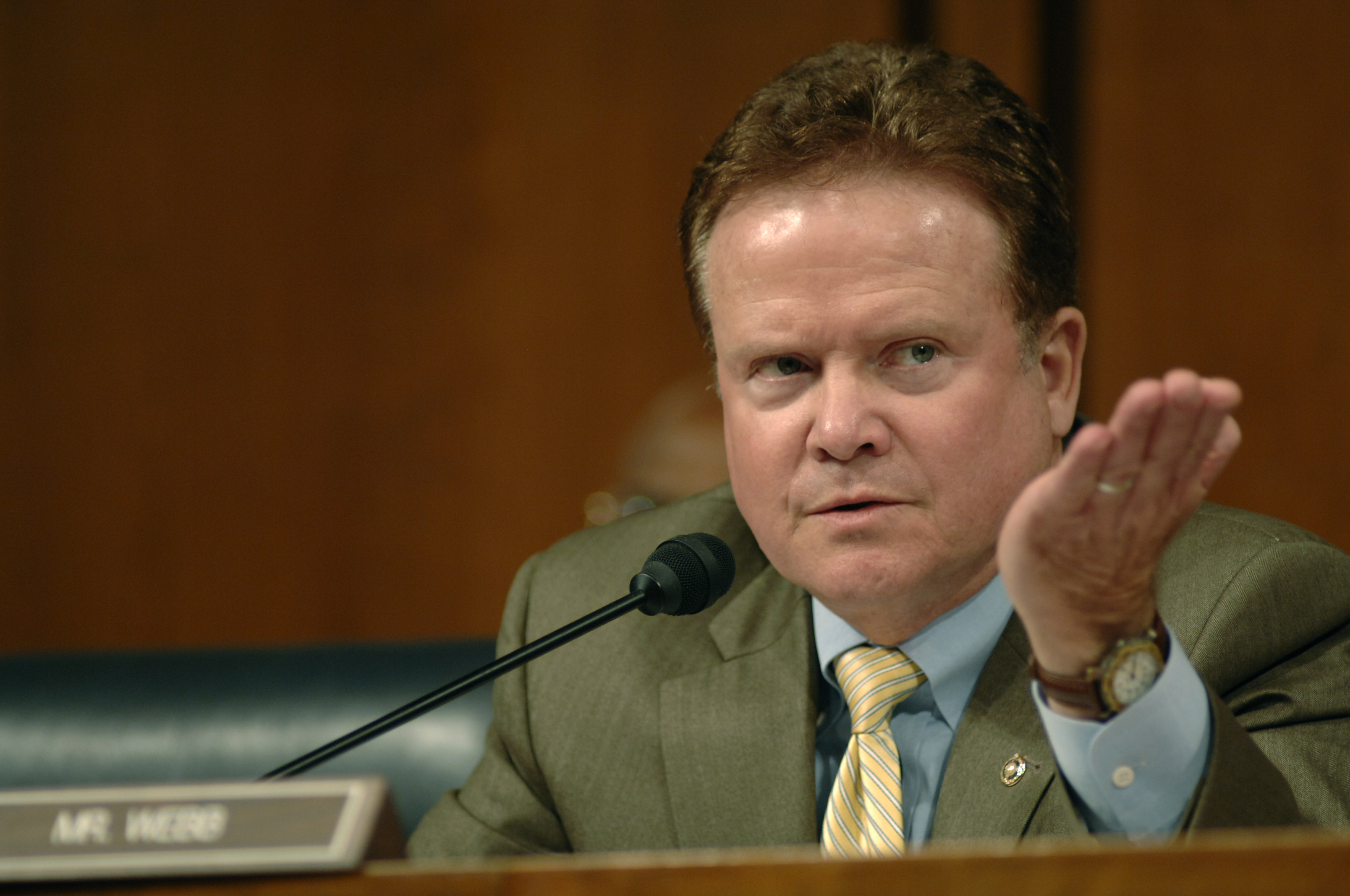 WASHINGTON (Sept. 27, 2007) – Sen. James Webb, D-Va., questions Adm. Gary Roughead, commander of U.S. Fleet Forces Command, after his testimony before the Committee on Armed Services during his confirmation hearing for appointment to Chief of Naval Operations. U.S. Navy photo by Chief Mass Communication Specialist Shawn P. Eklund (RELEASED)